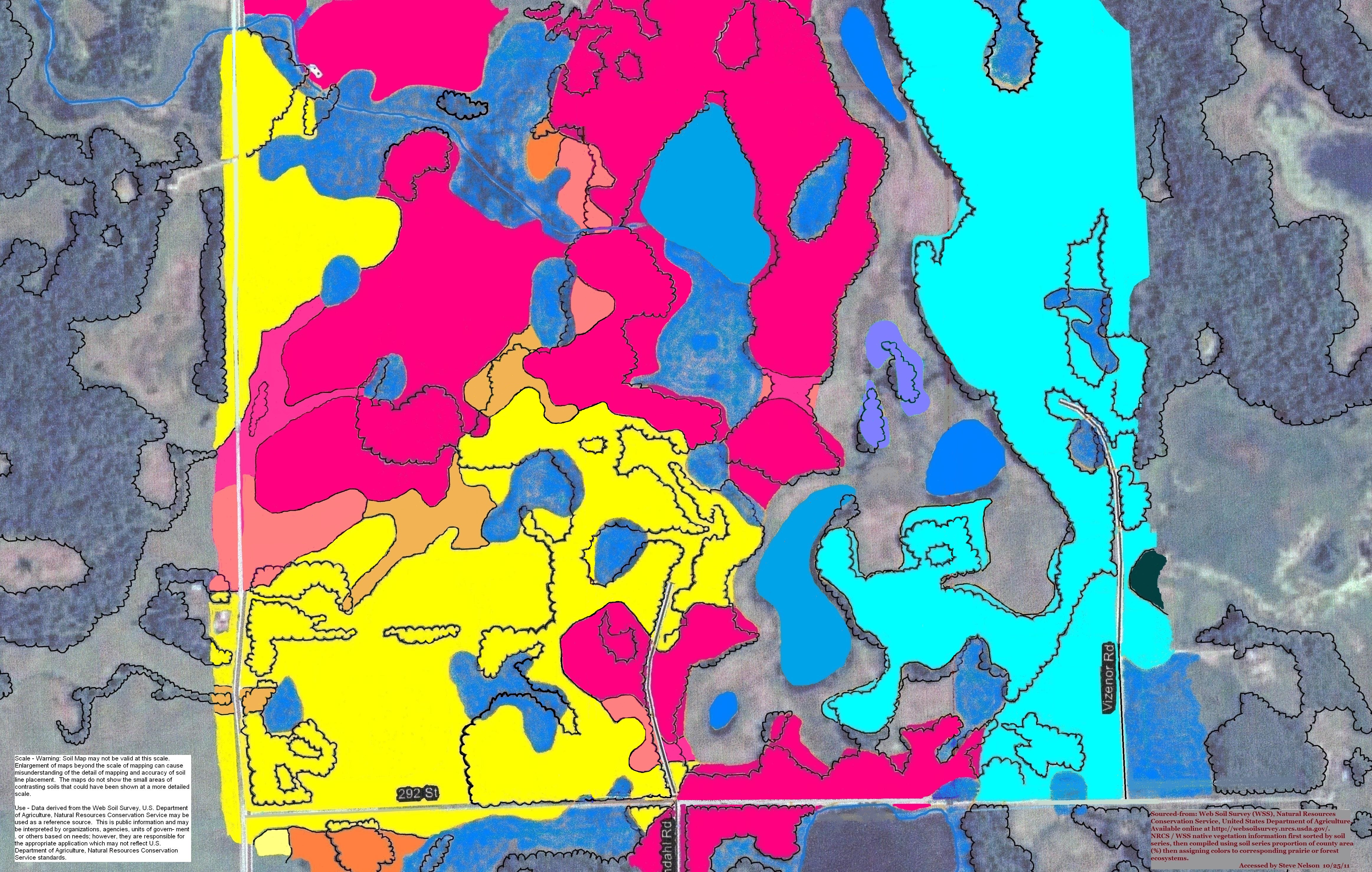 Colored map shows soils around the State of Minnesota Callaway Wildlife Management Area.